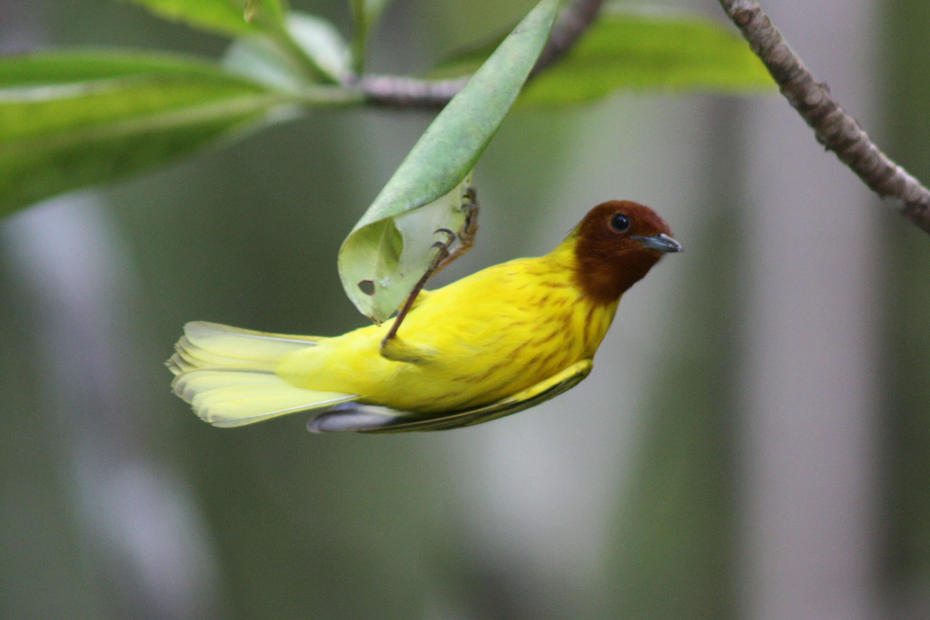 Resident adult male yellow or mangrove warbler (Bryant's warbler) (Setophaga petechial bryanti) in mangroves near Quepos, Costa Rica.